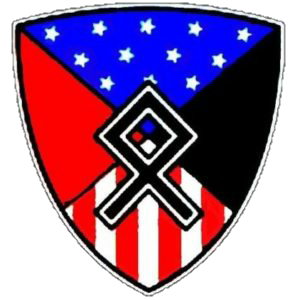 NSM Odal rune shield